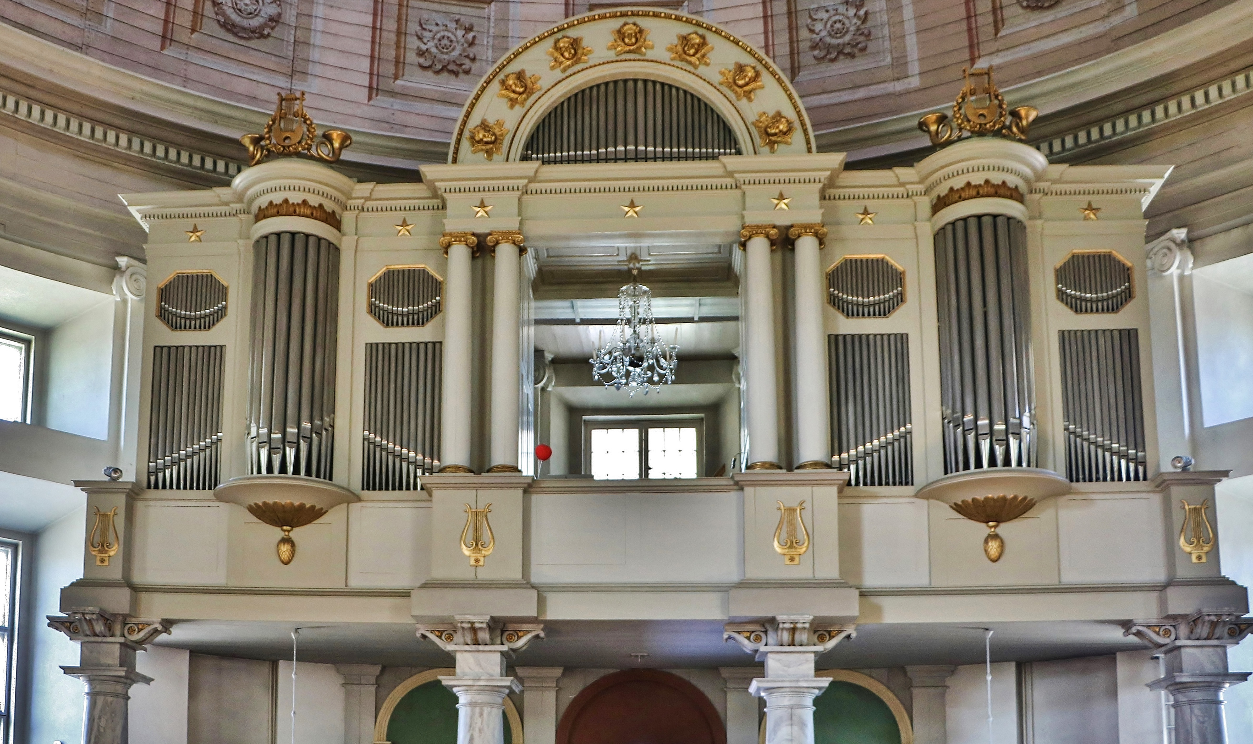 Holy Trinity Church, Karlskrona.The organ